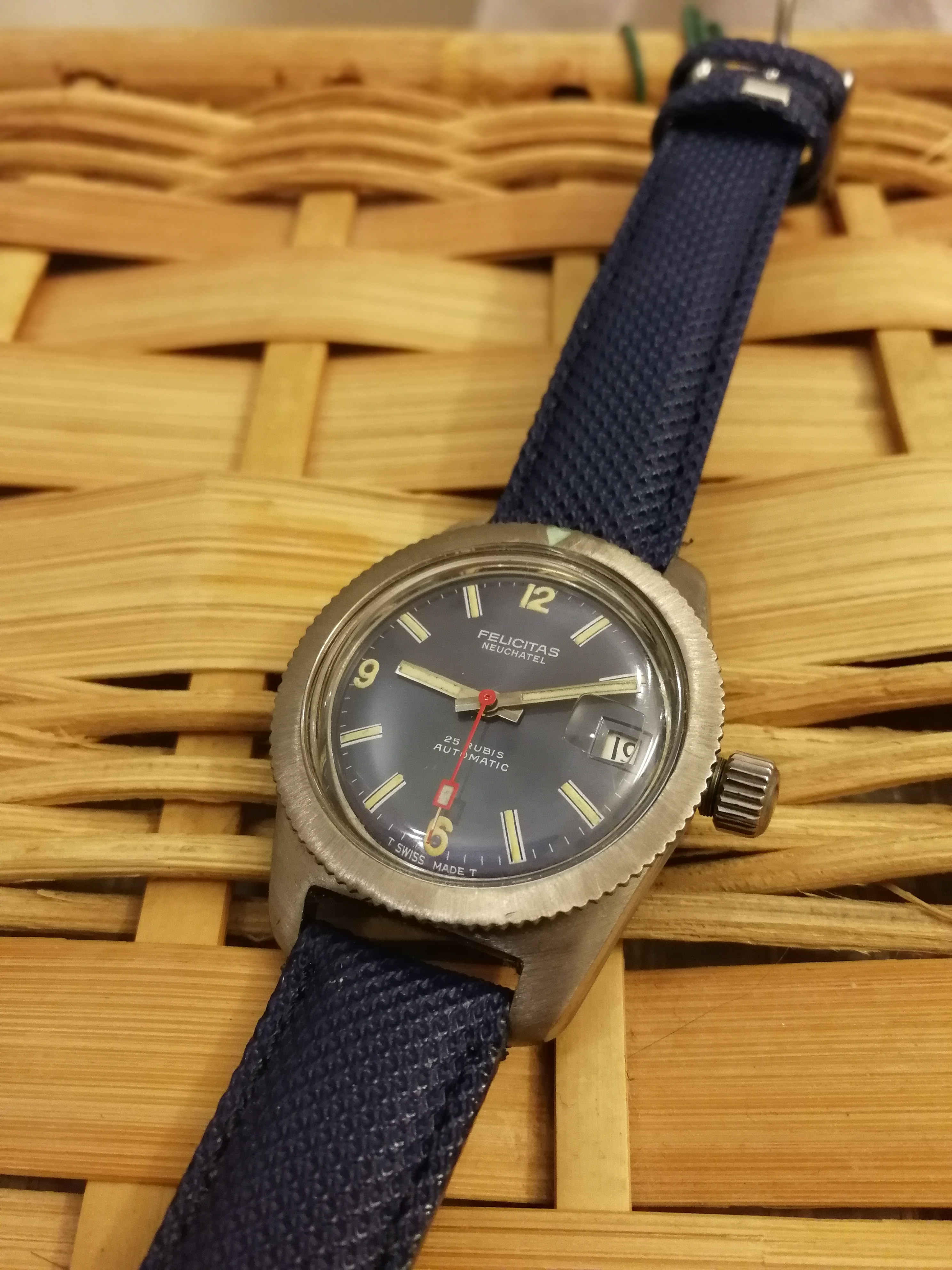 Felicitas watch